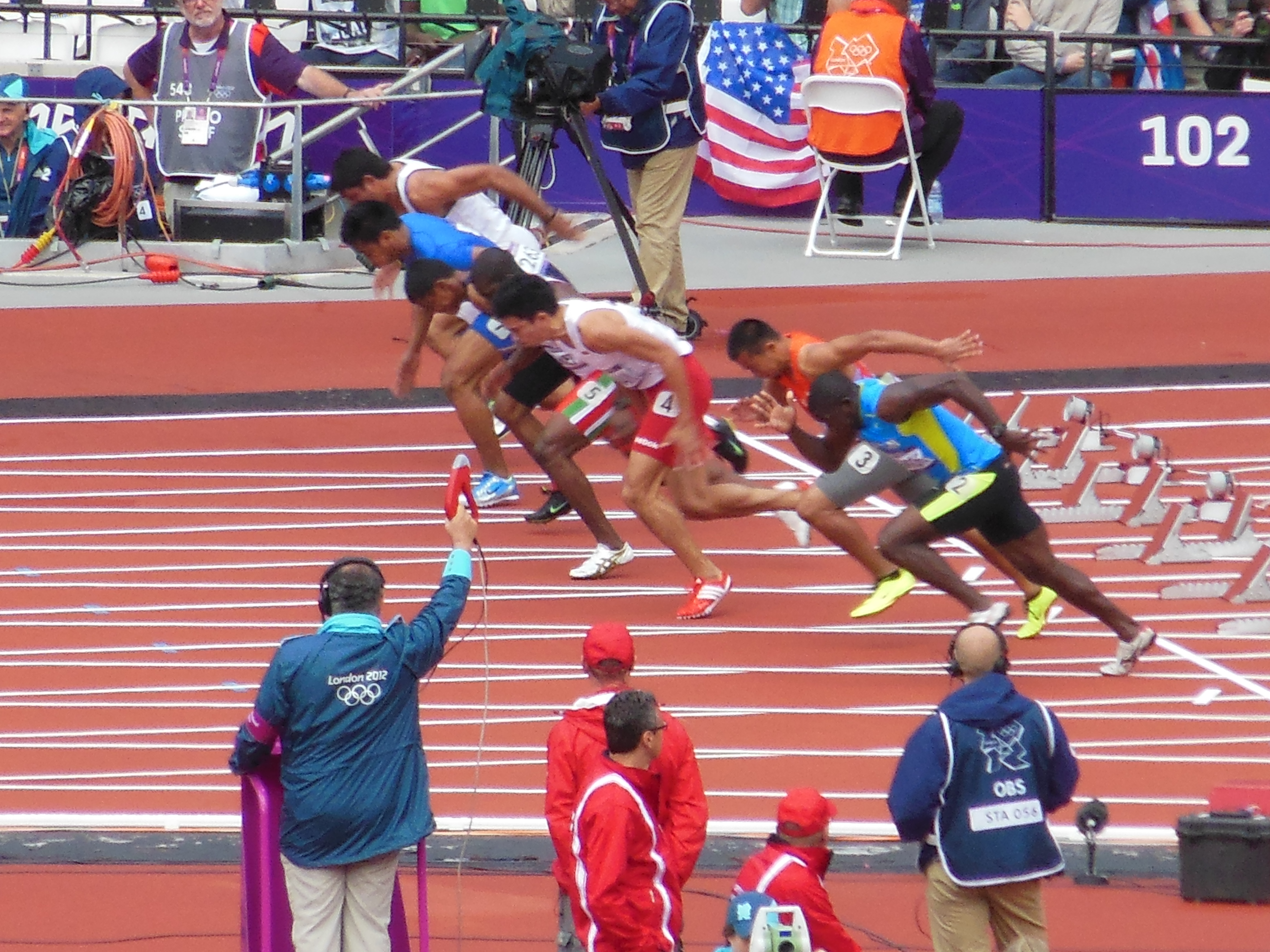 Athletics at the 2012 Summer Olympics – Men's 100 metres, Preliminaries heat 2 or 3